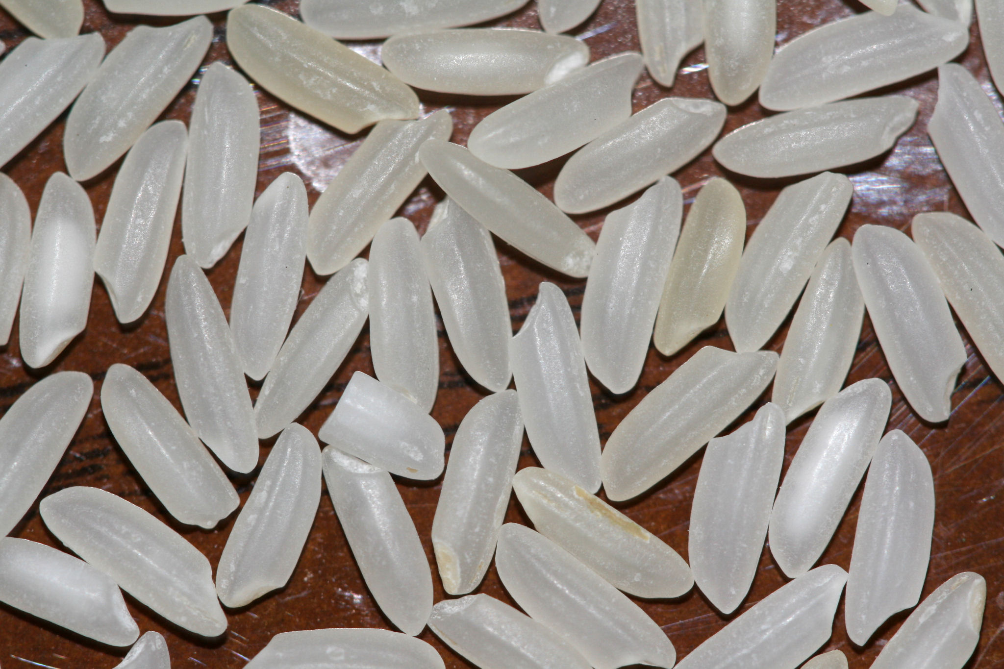 Close-up of polished sona masuri rice grown in the Indian states of Andhra Pradesh & Karnataka